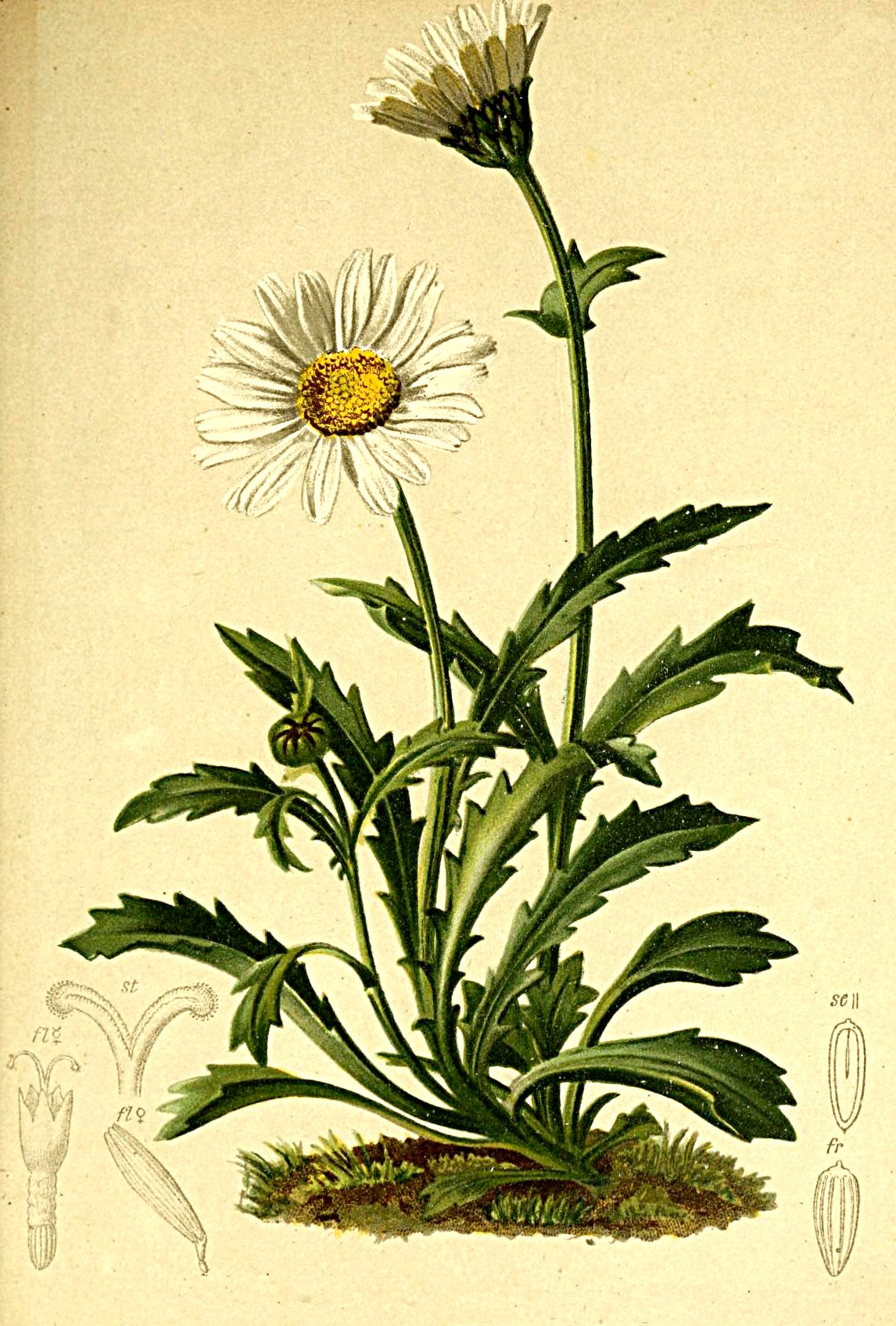 Leucanthemum alpinum (Leucanthemopsis alpina)